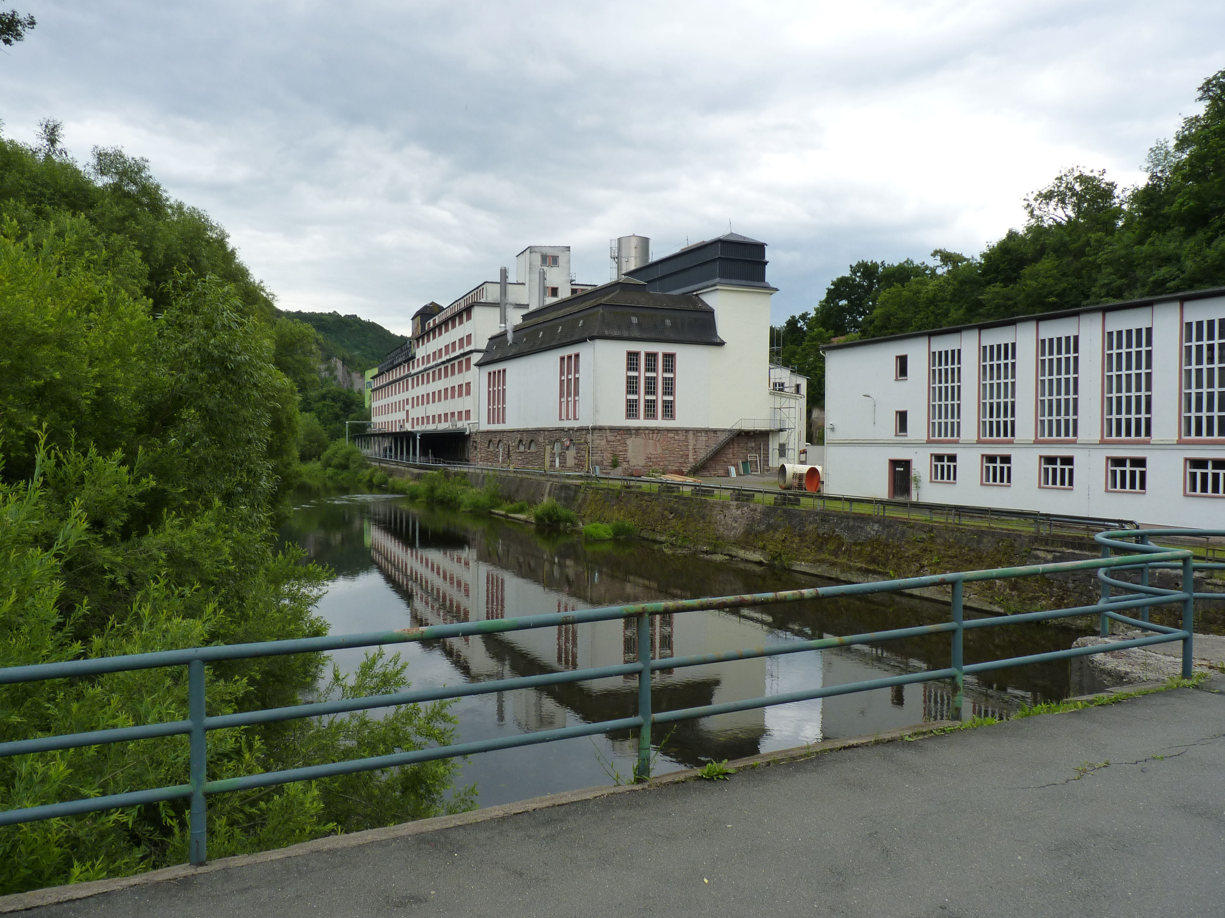 Chocolate factory in Saalfeld/Saale Germany